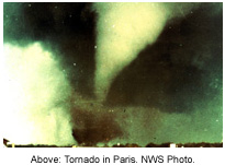 An F4 tornado near Paris, Texas